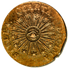 Photograph showing the reverse of Vermont copper coin of 1785. Department of the Treasury, United States Mint.